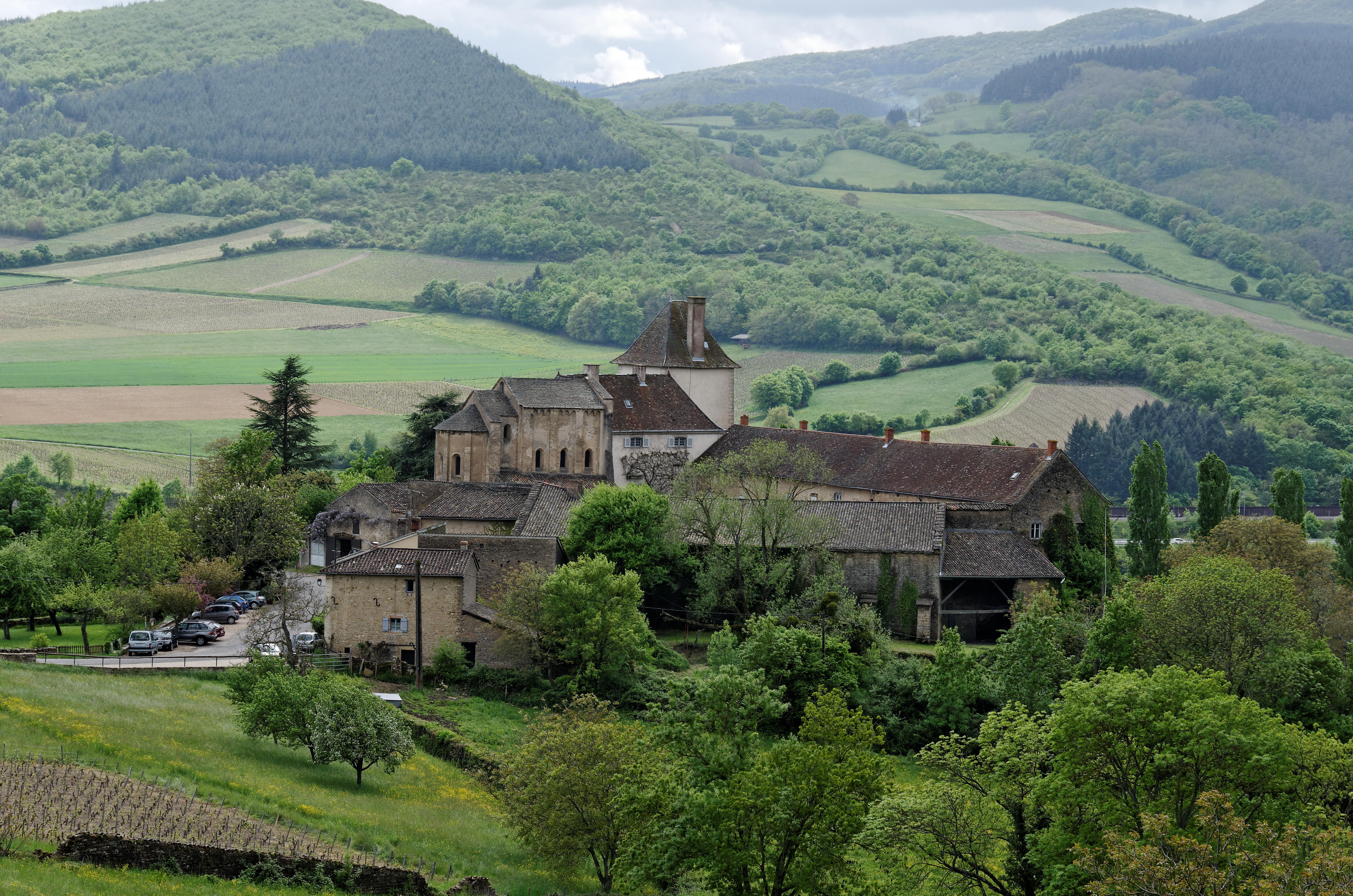 The Monks' chapel. Berzé-la-Ville, Saône et Loire (71) - France The chapel, classified "Monument historique", has romanesque frescos from the XIIe's century with Byzantine's and german's influences